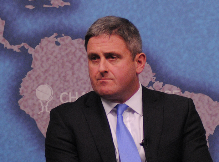 Investigating Cross-Border Crimes: Transatlantic Cooperation, 5 February 2013